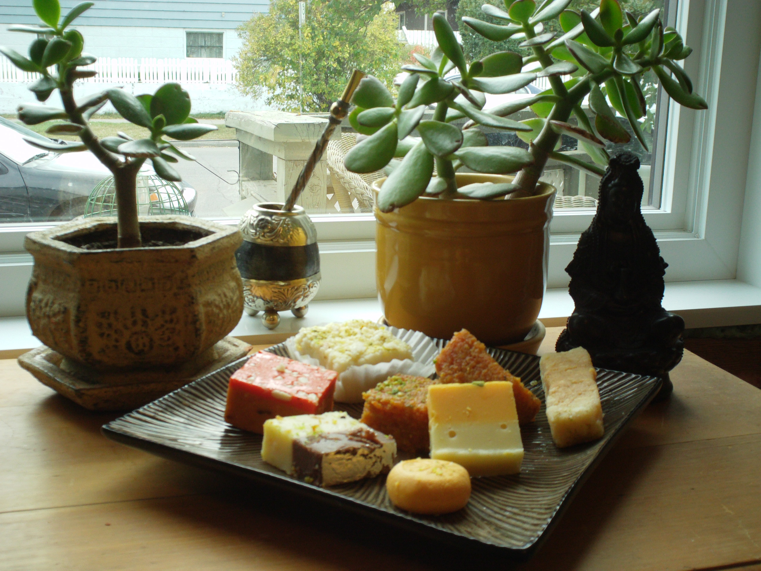 Almond, sugar and milk solids (Khoa or Khoya) are the basis for preparing some confection in India's extremely diverse sweets collection. Above is an assortment of burfi/burfees in a Mumbai, India shop.